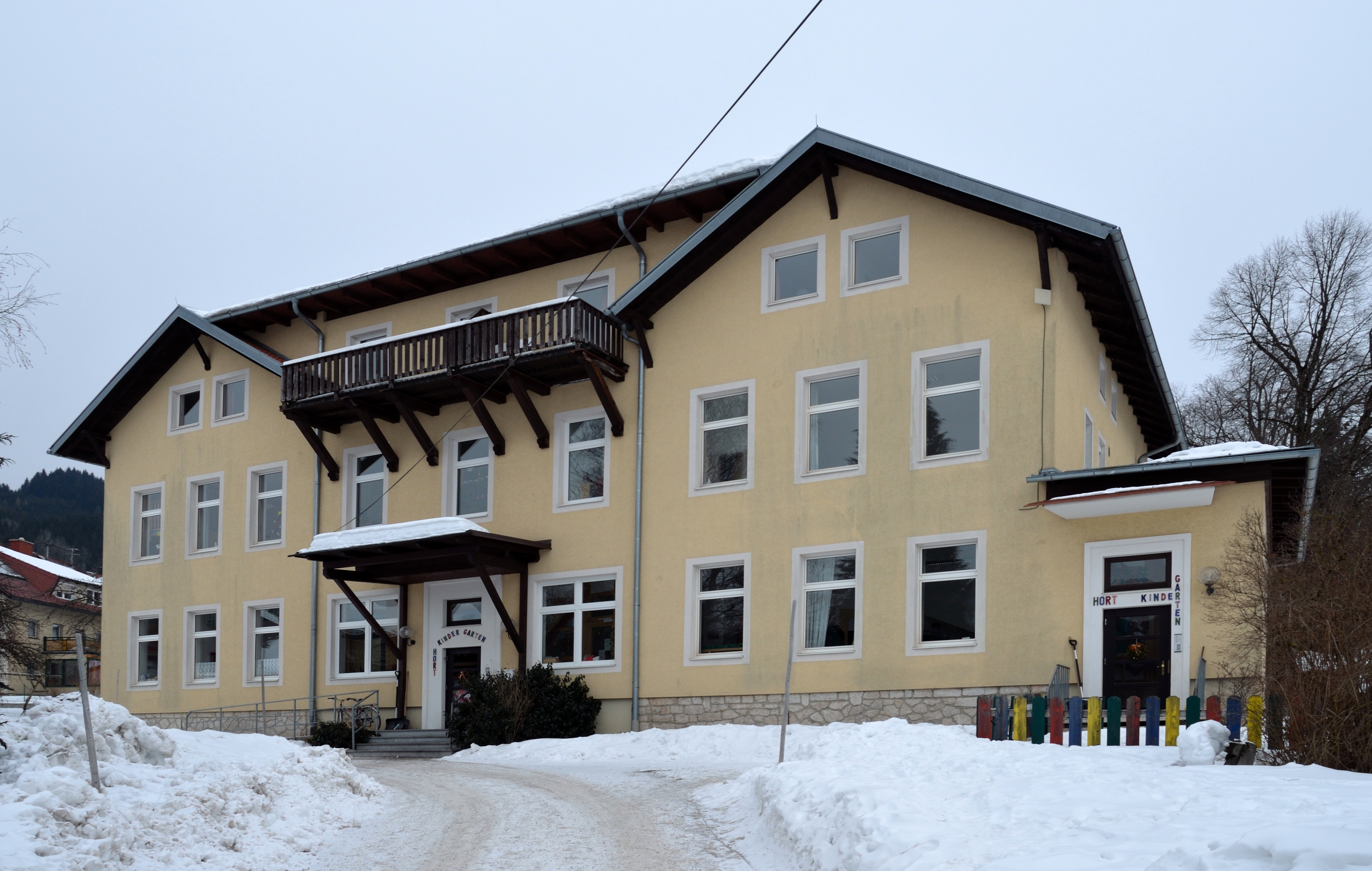 The building at Svetlinstr. 8 at Windischgarsten, Upper Austria, contains a kindergarten operated by Caritas Linz and is protected as a cultural heritage monument.